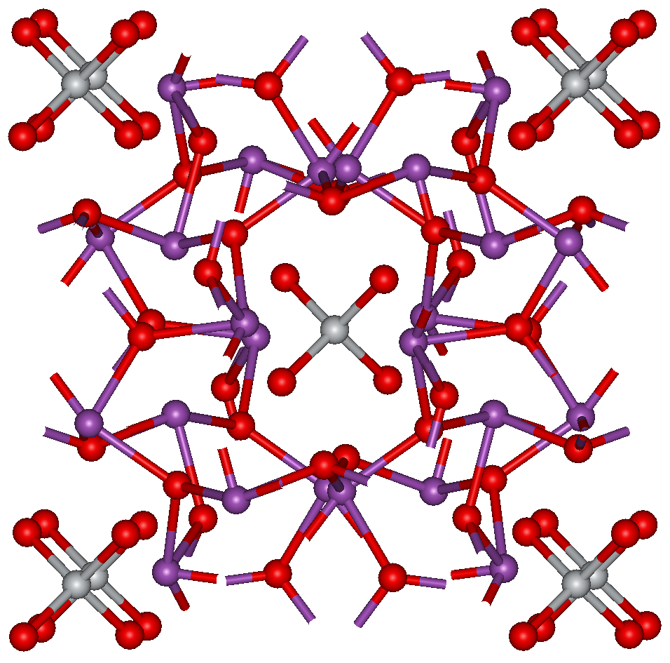 Bi12TiO20 crystal structure. Colors: red - O, gray - Ti, purple - Bi